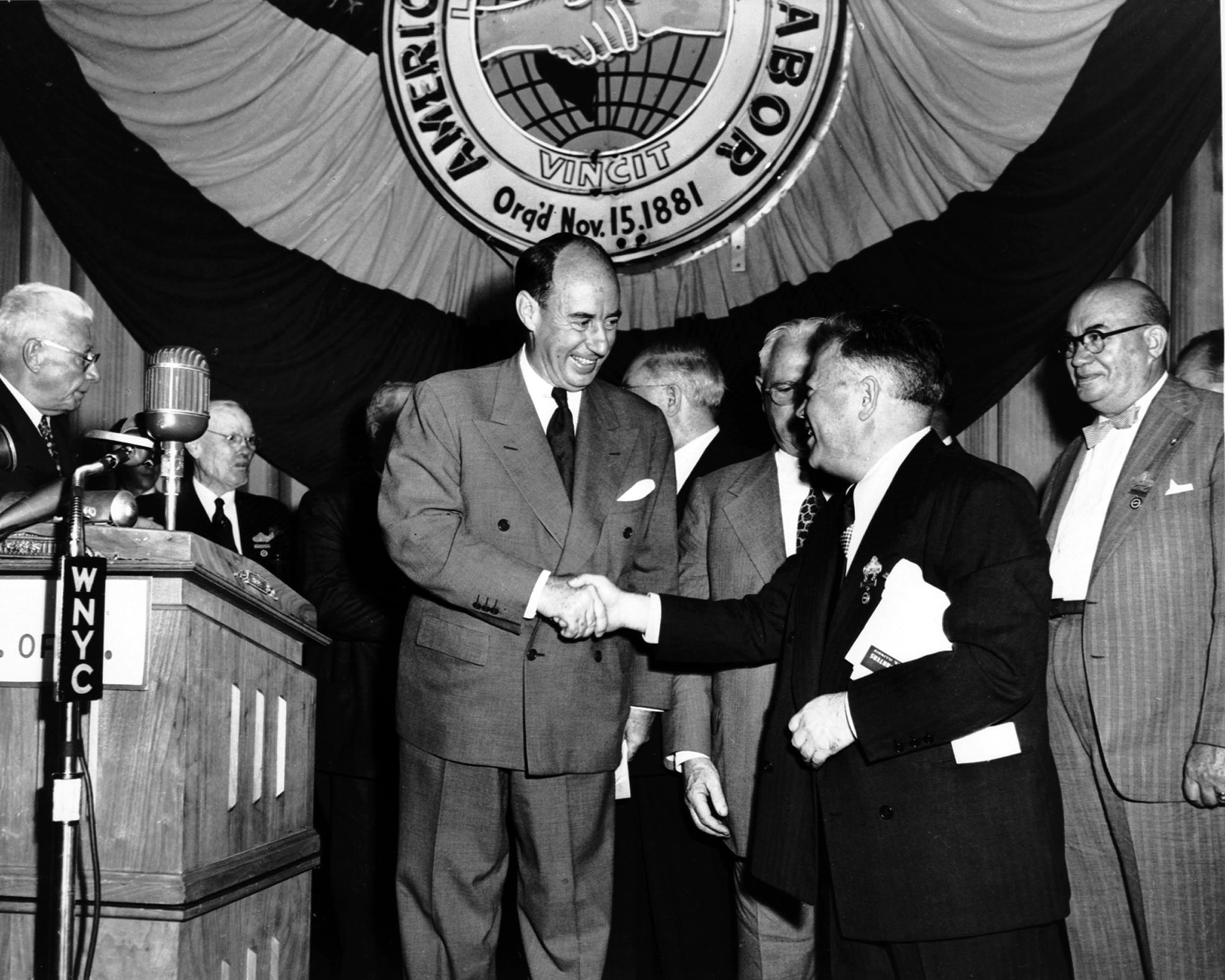 Title: Adlai Stevenson and David Dubinsky shake hands on stage at an AFL convention, September 1952. Date: 1952 Photographer: Unknown Photo ID: 5780PB1F5D Collection: International Ladies Garment Workers Union Photographs (1885-1985) Repository: The Kheel Center for Labor-Management Documentation and Archives in the ILR School at Cornell University is the Catherwood Library unit that collects, preserves, and makes accessible special collections documenting the history of the workplace and labor relations. Notes: No additional information available. Copyright: The copyright status of this image is unknown. It may also be subject to third party rights of privacy or publicity. Images are being made available for purposes of private study, scholarship, and research. The Kheel Center would like to learn more about this image and hear from any copyright owners who are not properly identified so that we may make the necessary corrections. Tags: Kheel Center for Labor-Management Documentation and Archives,Cornell University Library,Conventions, Labor Leaders, Public Figures